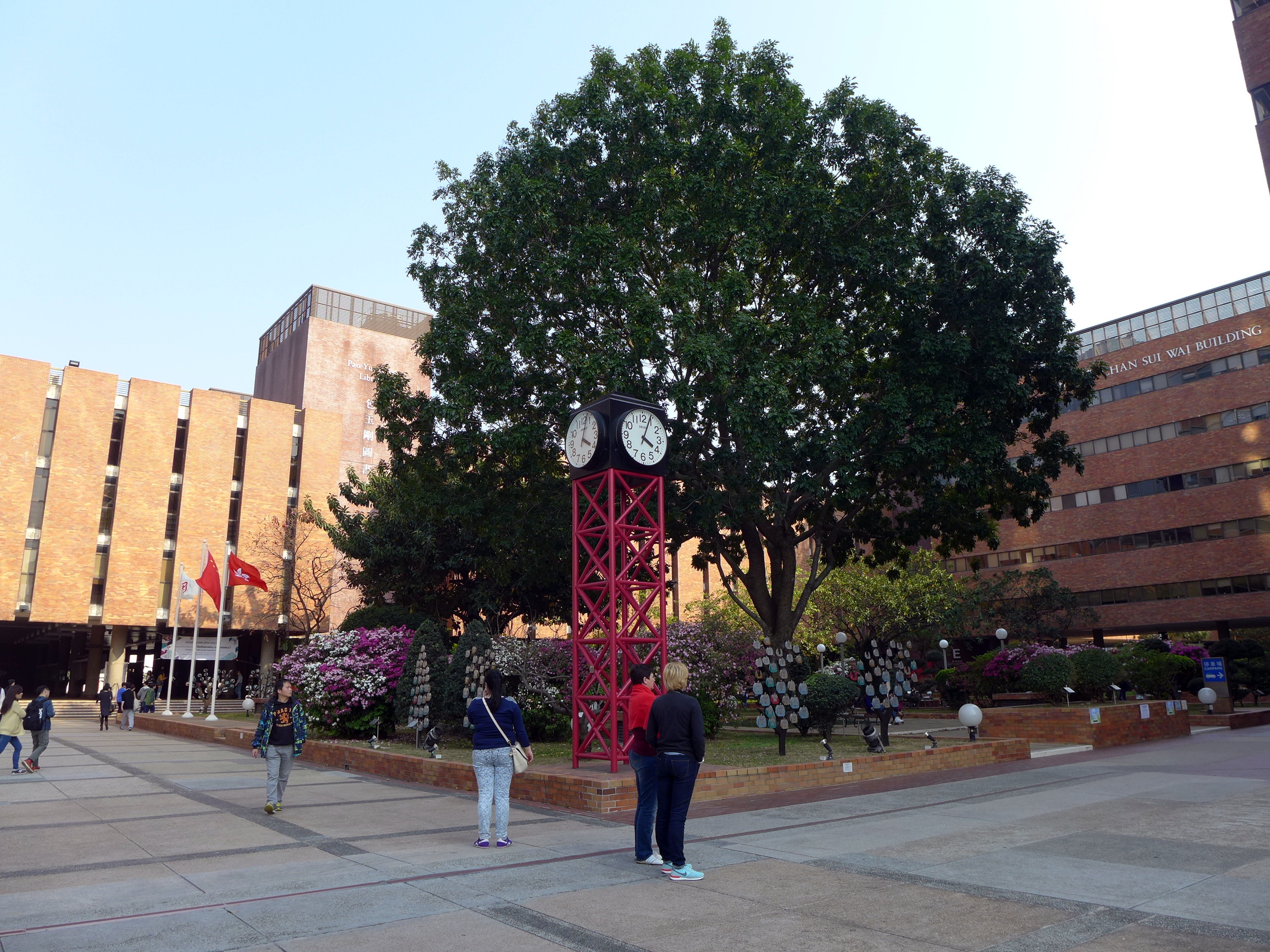 Hong Kong Polytechnic University Clock Tower